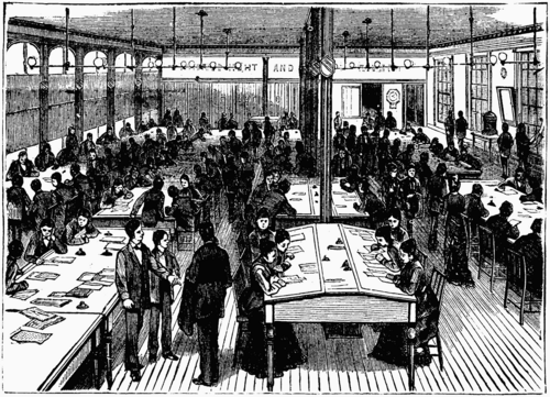 A scene of students studying at Packard's Business College, New York City